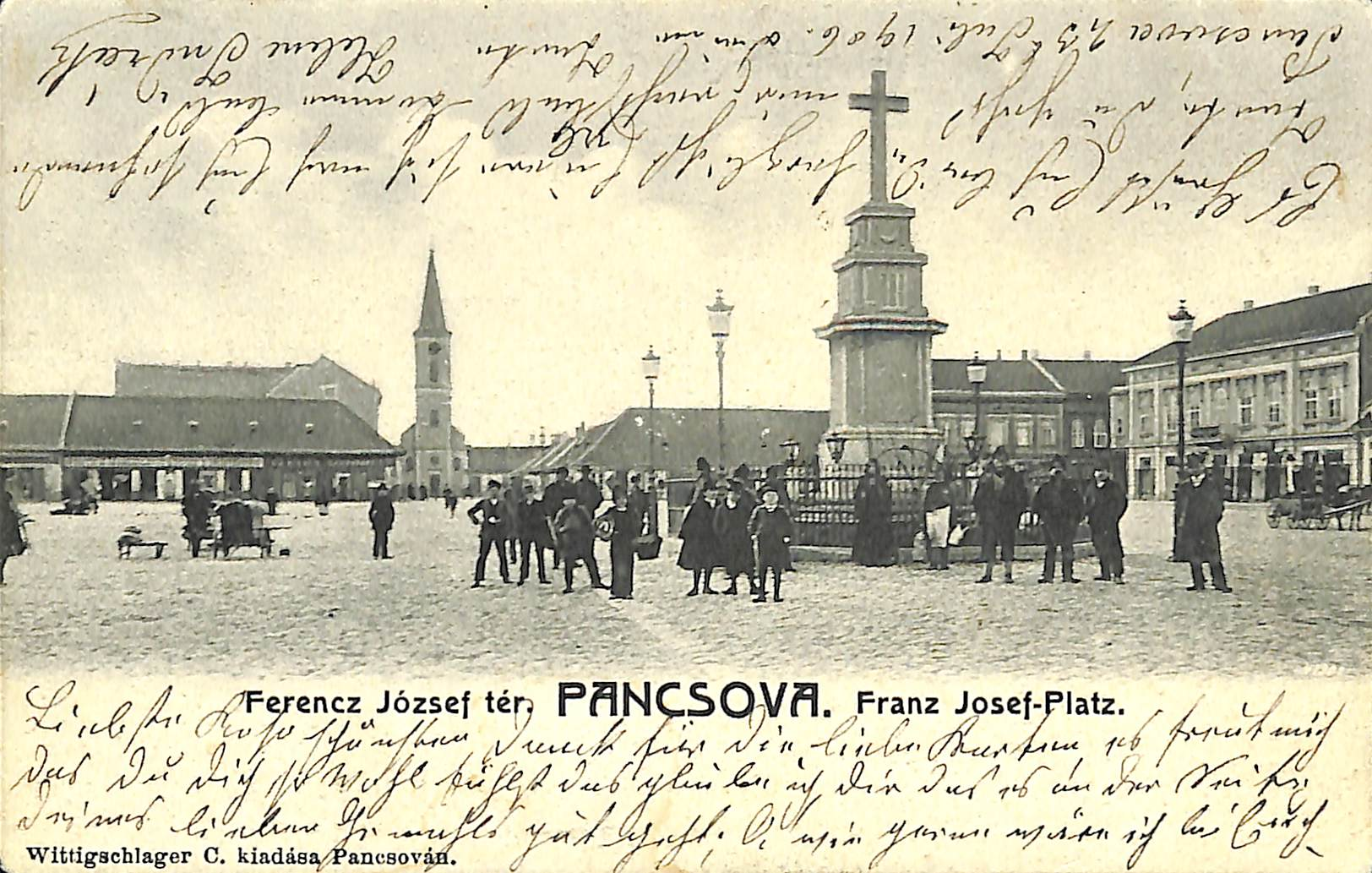 a monument of the cross at King Peter Square in Pančevo